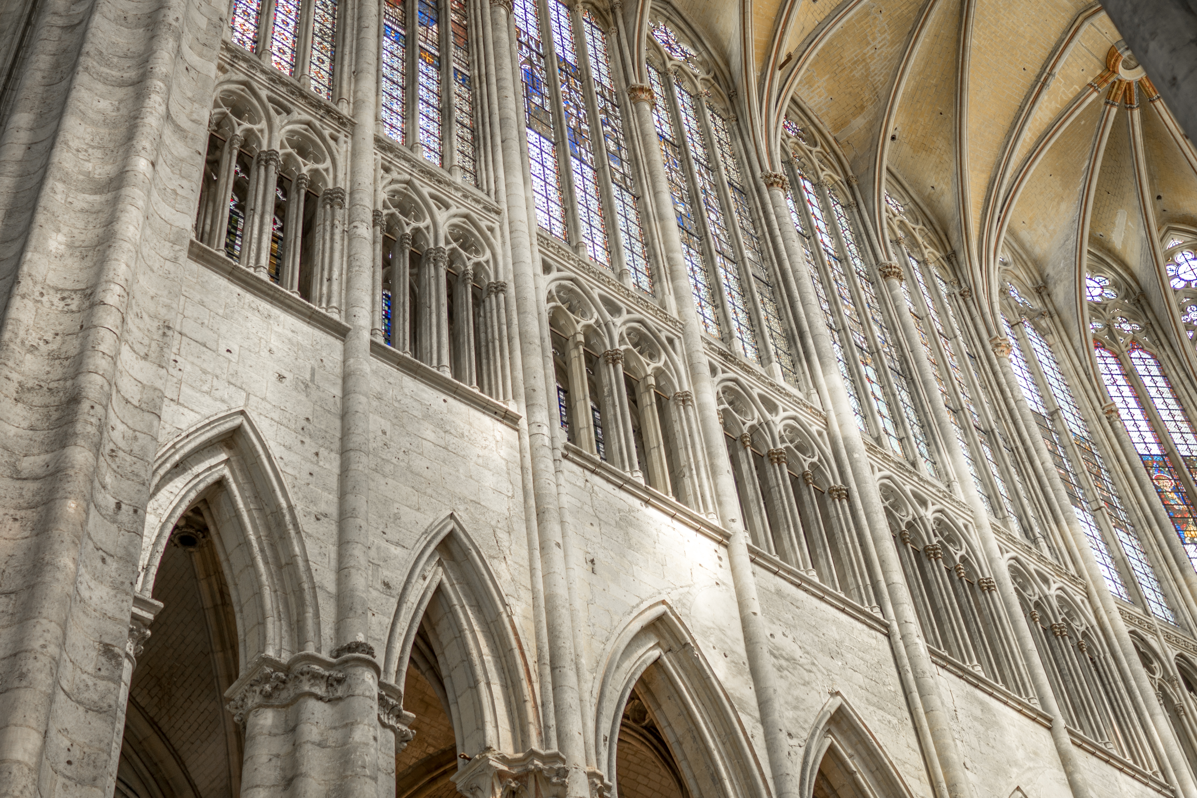 Beauvais cathedral interior picture